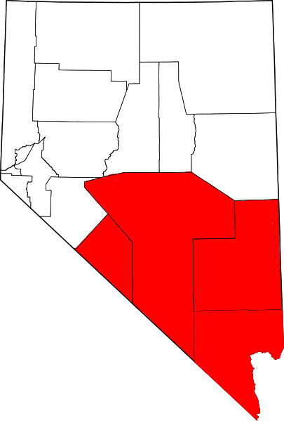 highlighted map of southern nevada